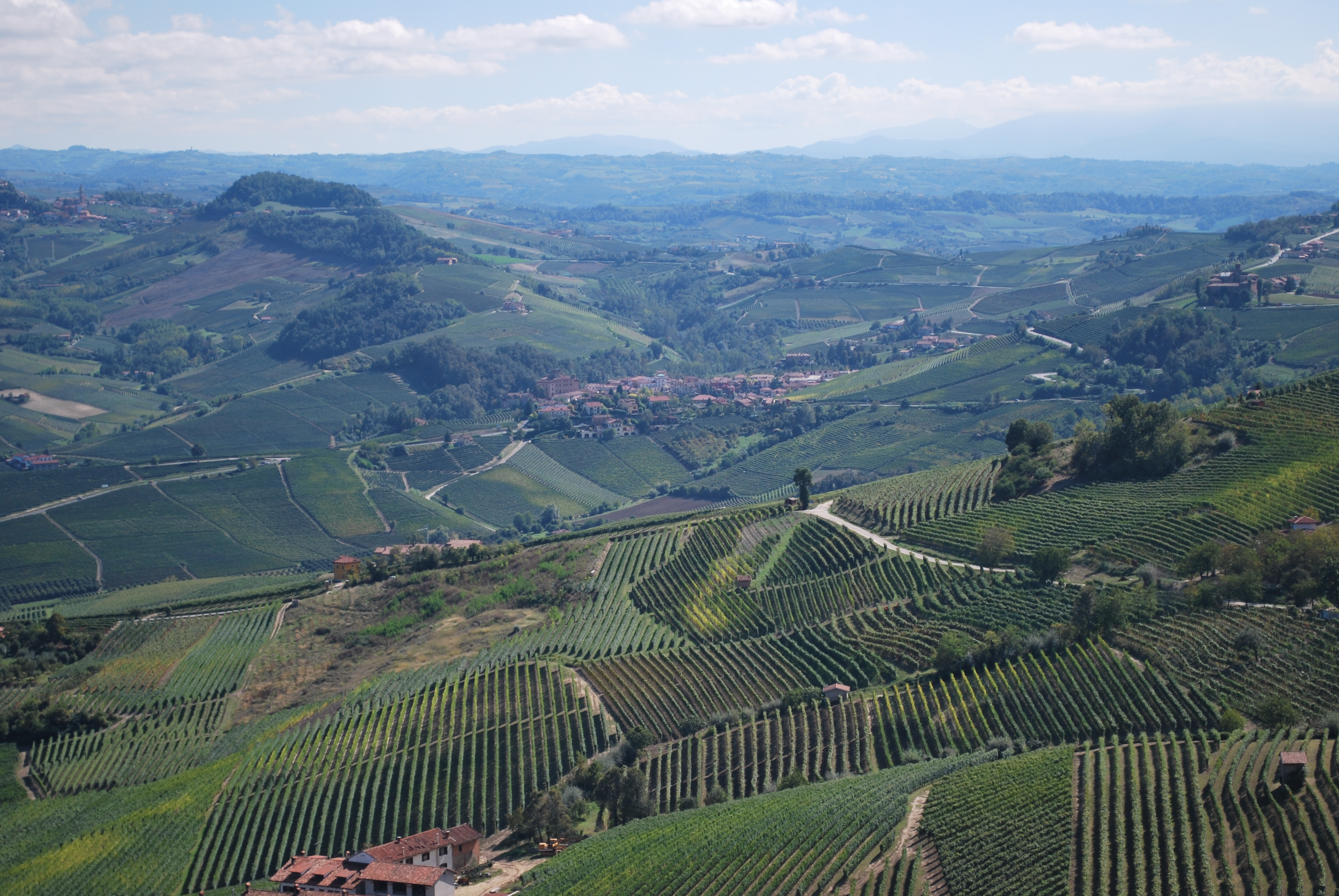 View from La Morra village. Barolo village in the middle of the picture.